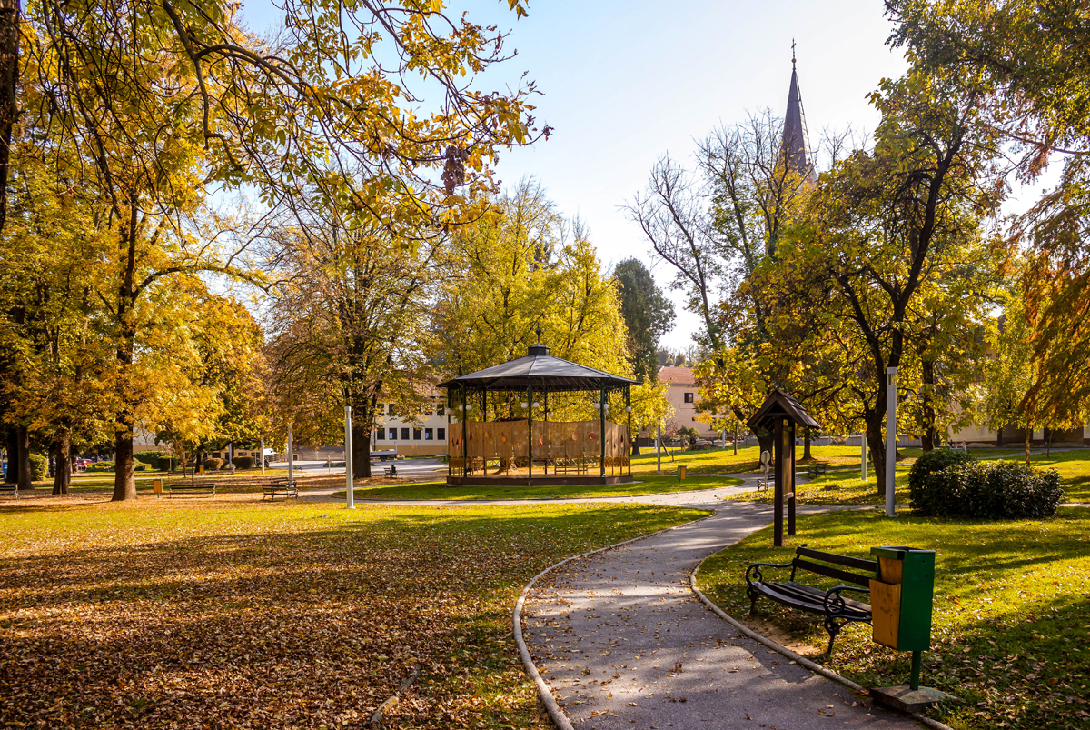 Park Slatina